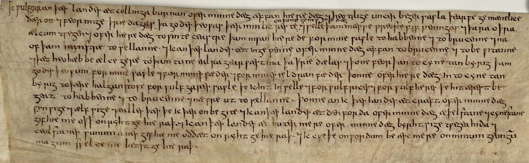 S 1533 Will of Wulfgar (BL Cotton Charters VIII 16 B) attached to S 416